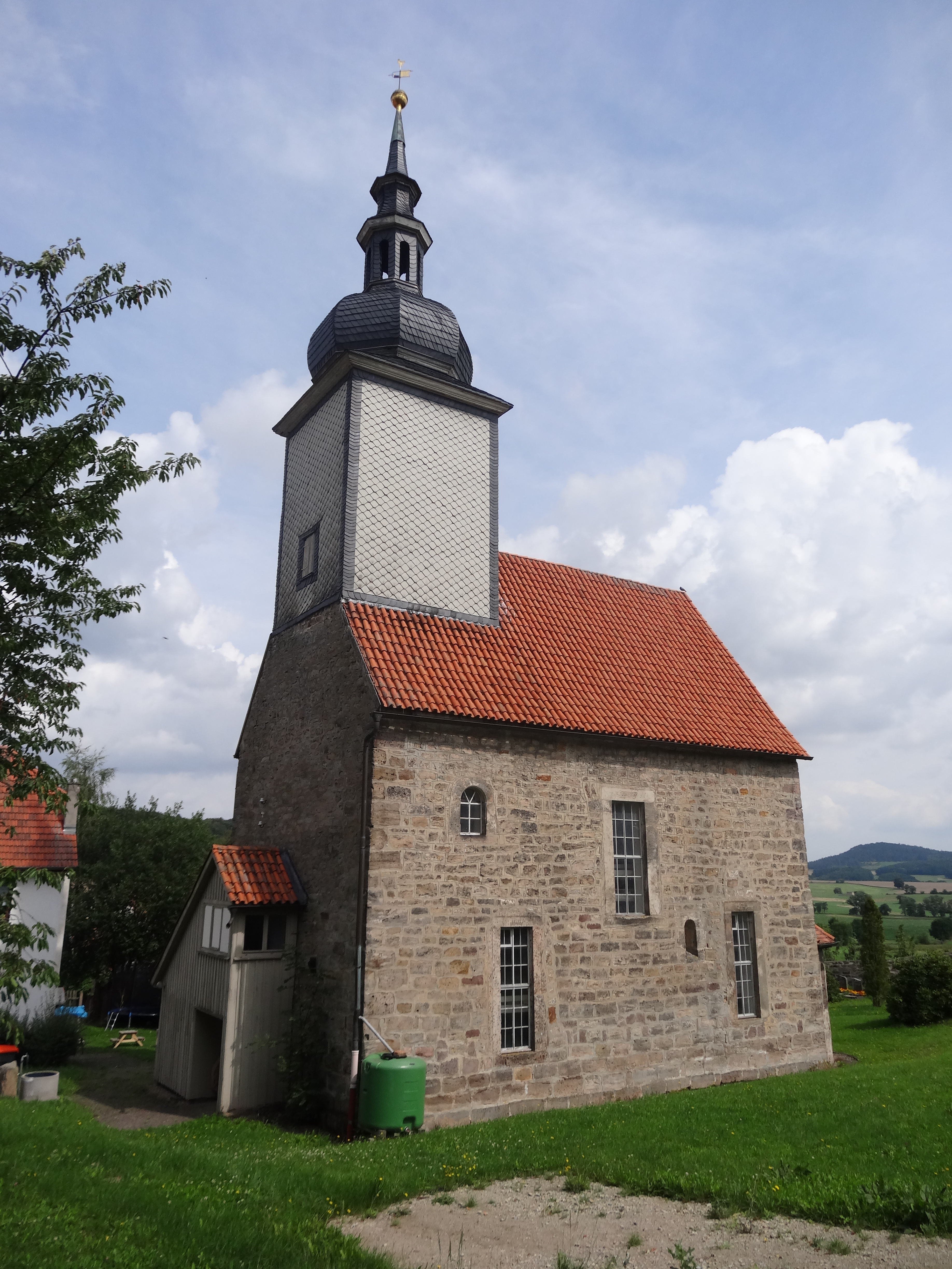 Church in Schmerfeld, Thuringia, Germany